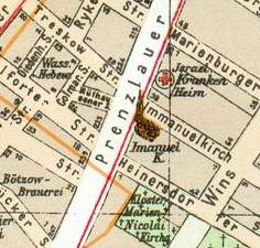 Map of the Immanuelkirche in Berlin, Germany